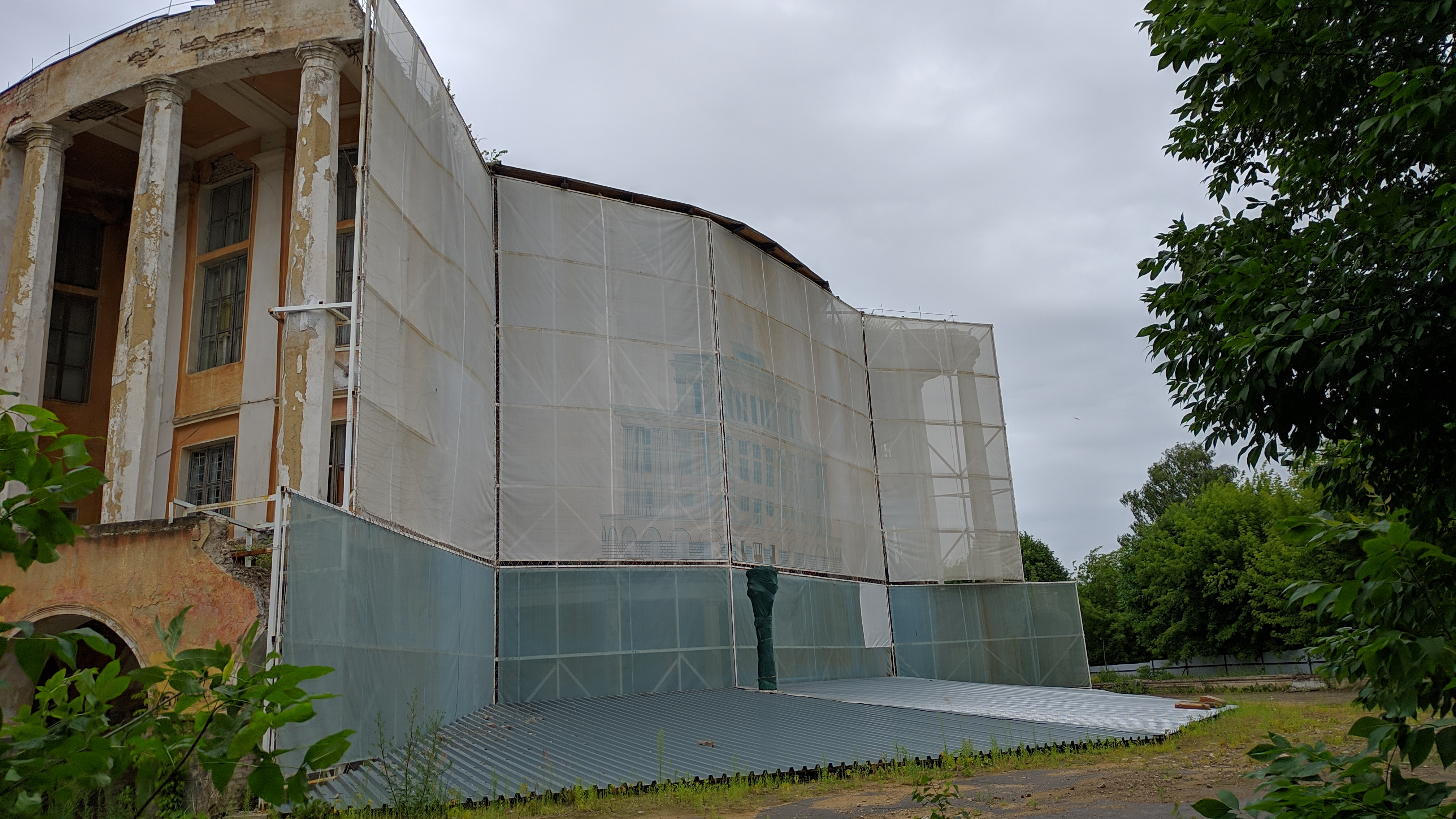 Current state of the Tver river terminal's building as seen on June 29th 2019 (Tver, Russia)